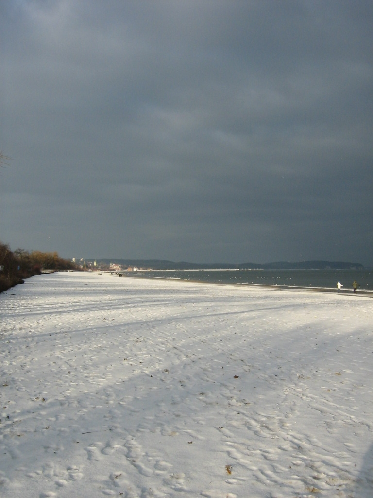 Jelitkowo Beach in Gdańsk. Winter 2008/2009.